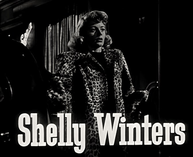 Shelley Winters in Cry of the City - trailer (cropped screenshot)